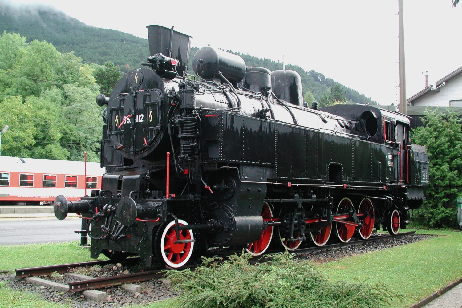 en: The last survivor of ÖBB class 95, former Südbahn class 82, displayed on plinth at Payerbach-Reichenau station on the Semmering railway. There these engines were primarily used for banking and double-heading of heavy trains.